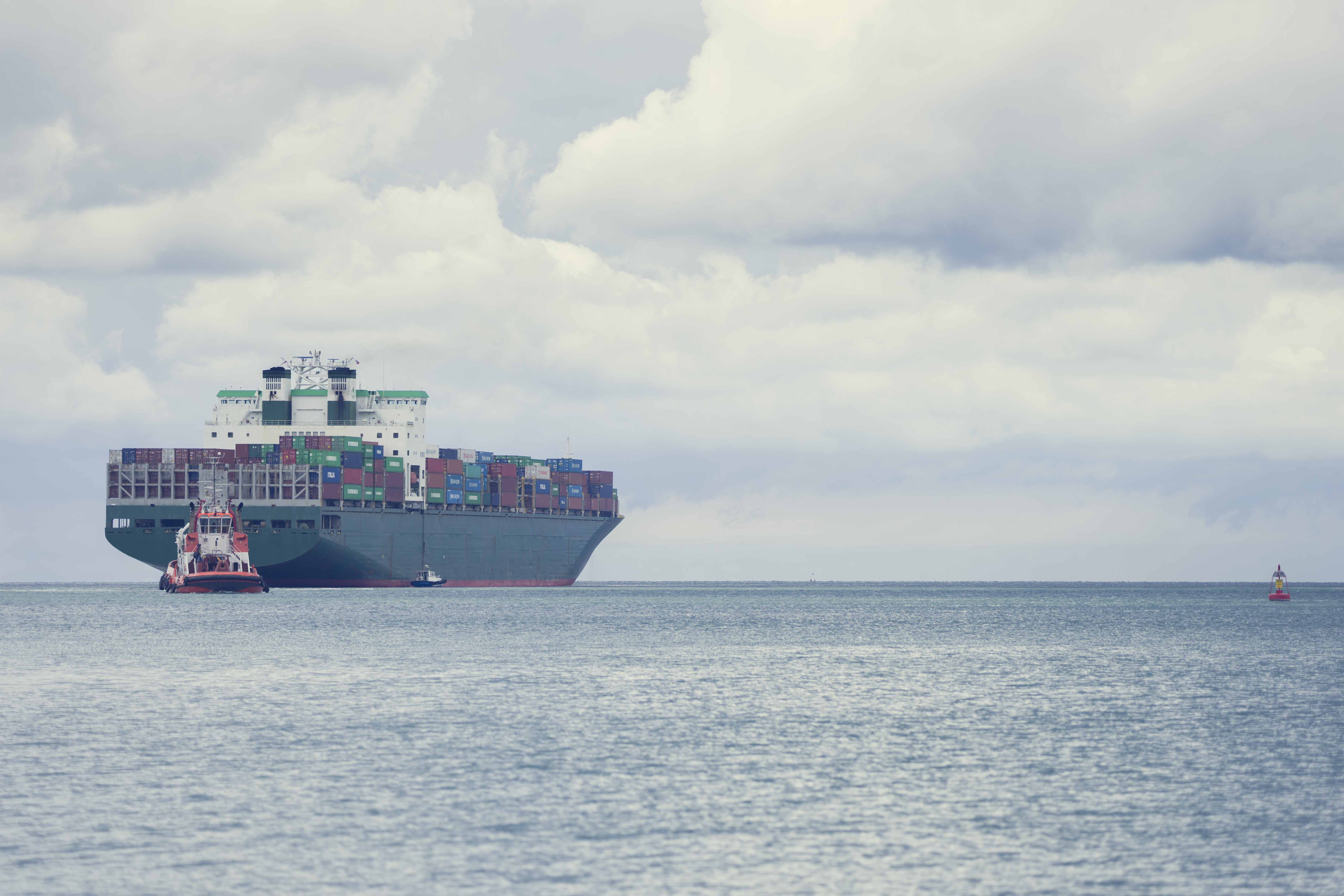 Container ship Ever Uberty in Koper.